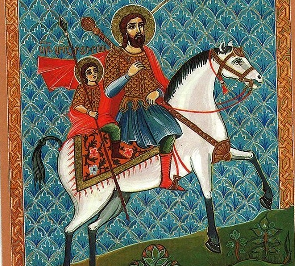 St. Sarkis